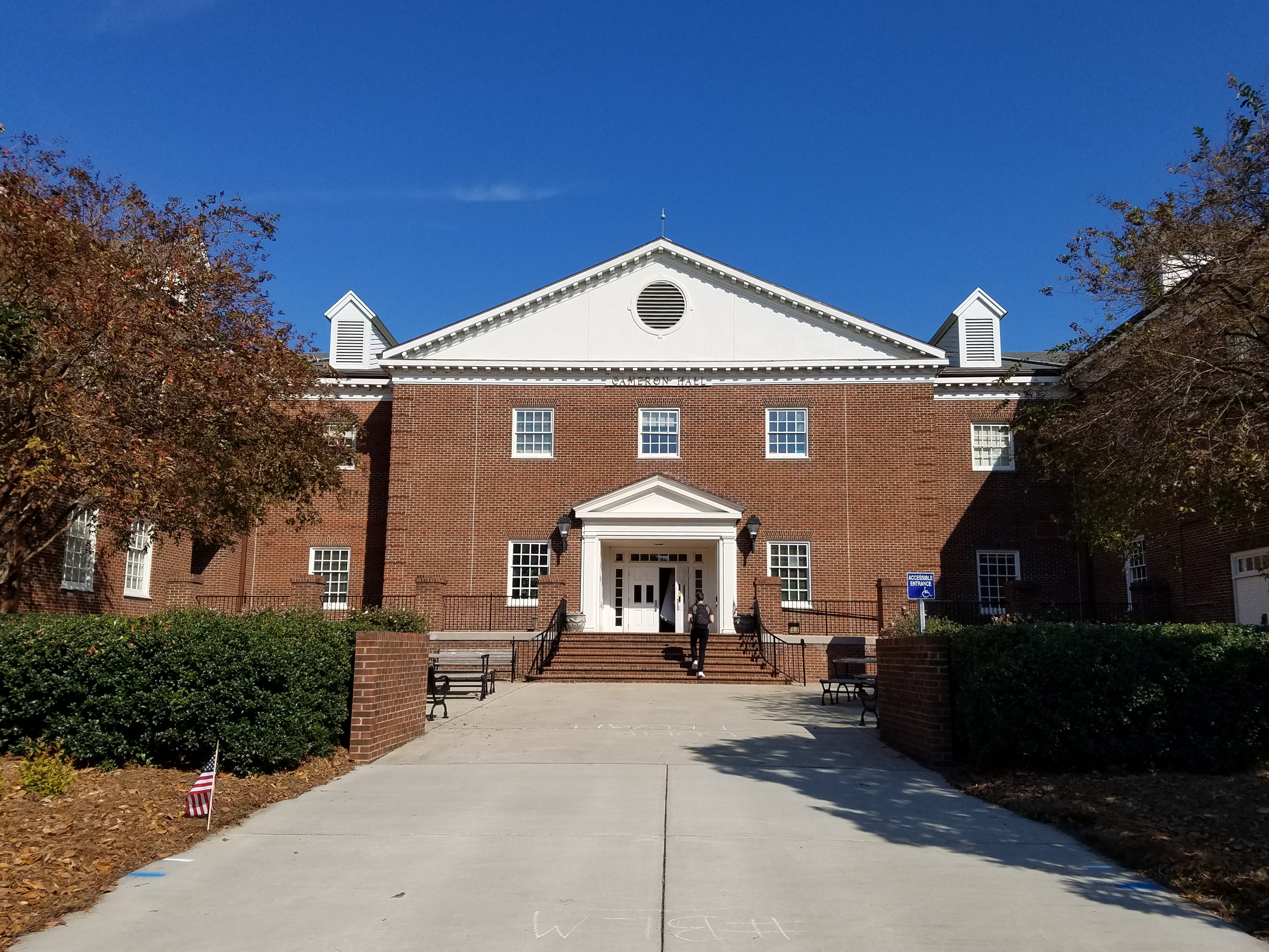 Photograph of the Cameron School of Business main building at Cameron Hall on the campus of University of North Carolina Wilmington (UNCW) in Wilmington, NC